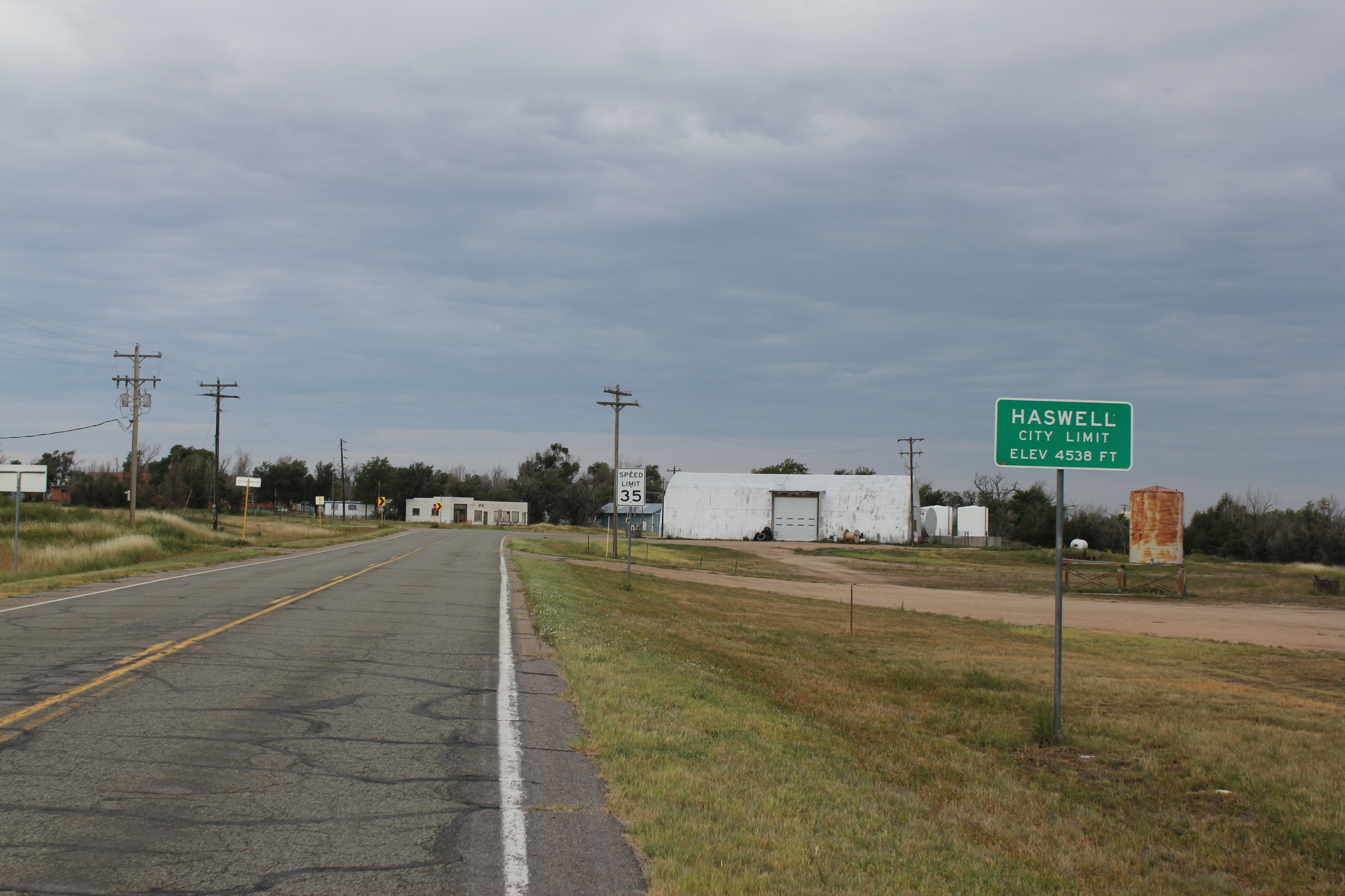 The town of Haswell, Colorado.